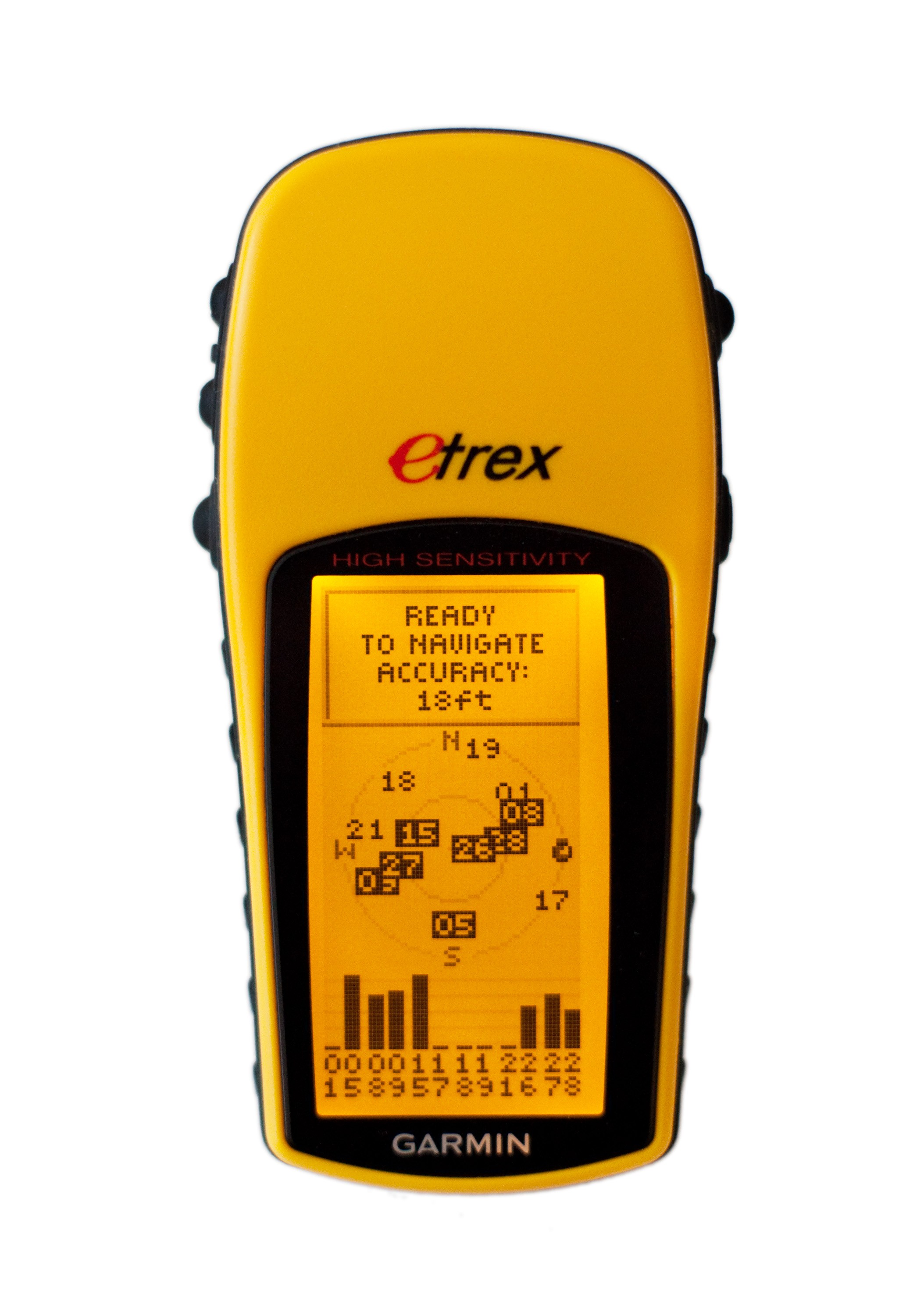 A late-model Garmin Etrex H handheld GPS navigator.